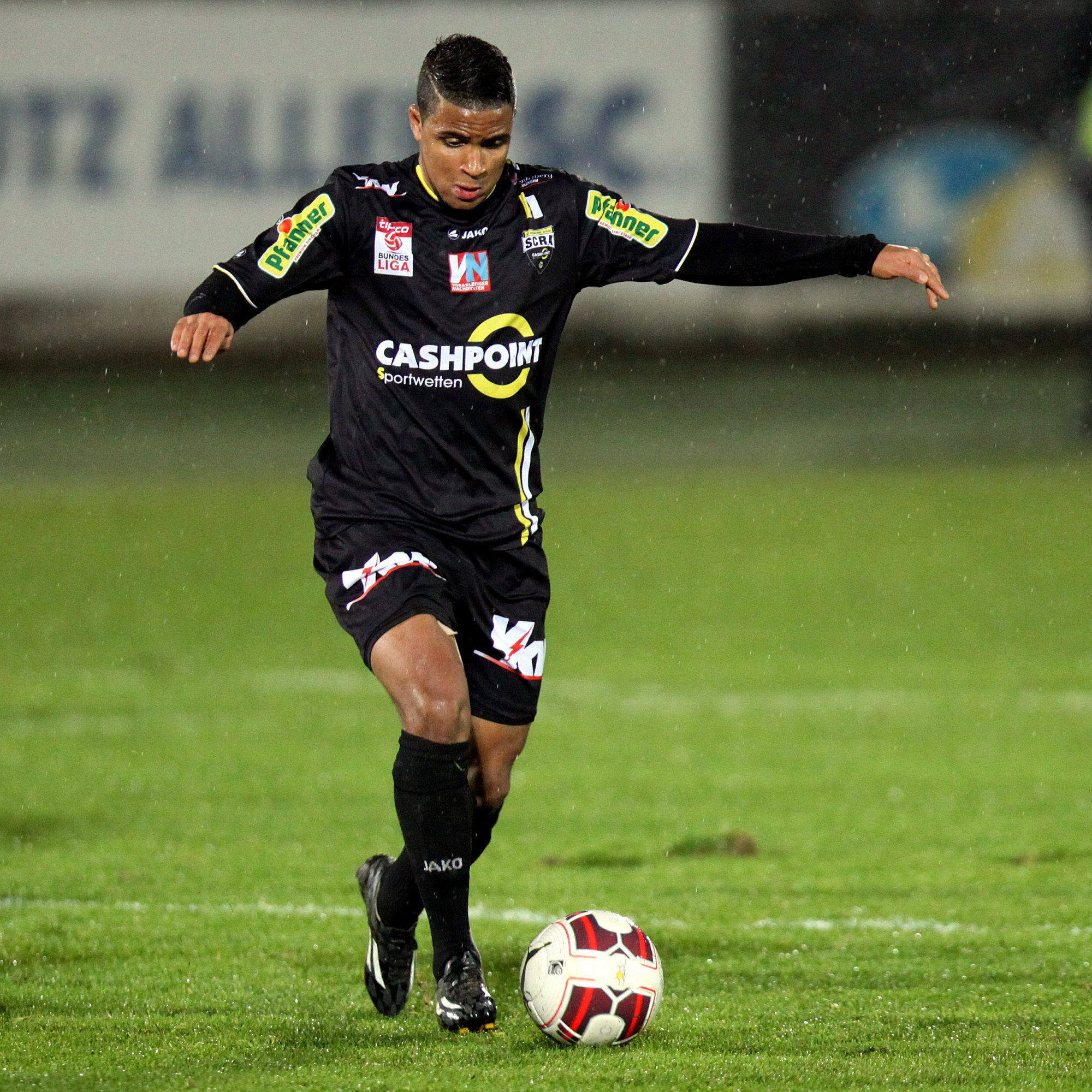 2014–15 Austrian Football Bundesliga: SC Wiener Neustadt vs. SC Rheindorf Altach (2:0 / 0:0) at 2014-12-06 in the Stadion Wiener Neustadt. – The photo shows en: (SC Wiener Neustadt/SC Rheindorf Altach). The making of this work was supported by Wikimedia Austria. For other files made with the support of Wikimedia Austria, please see the category Supported by Wikimedia Österreich.